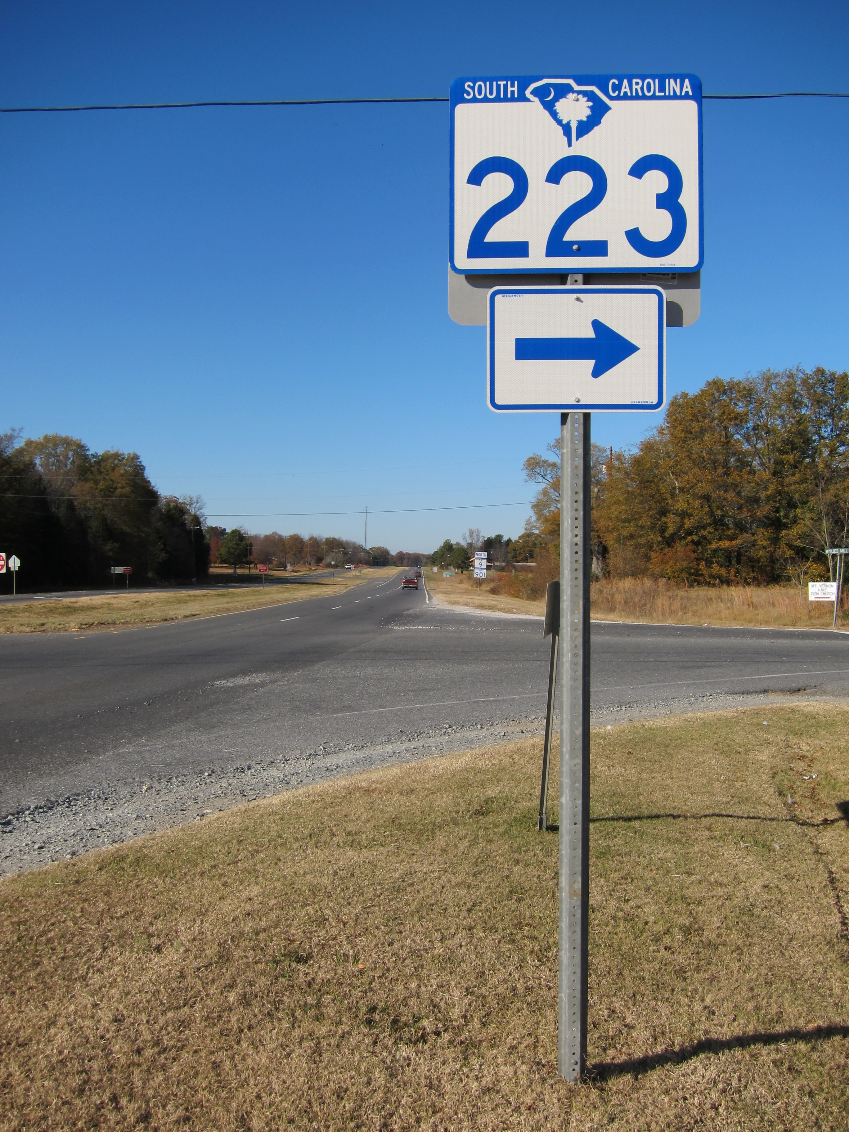 Directional sign of SC 223 in RIchburg, South Carolina.